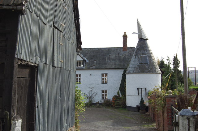 Oast at Castle Farm